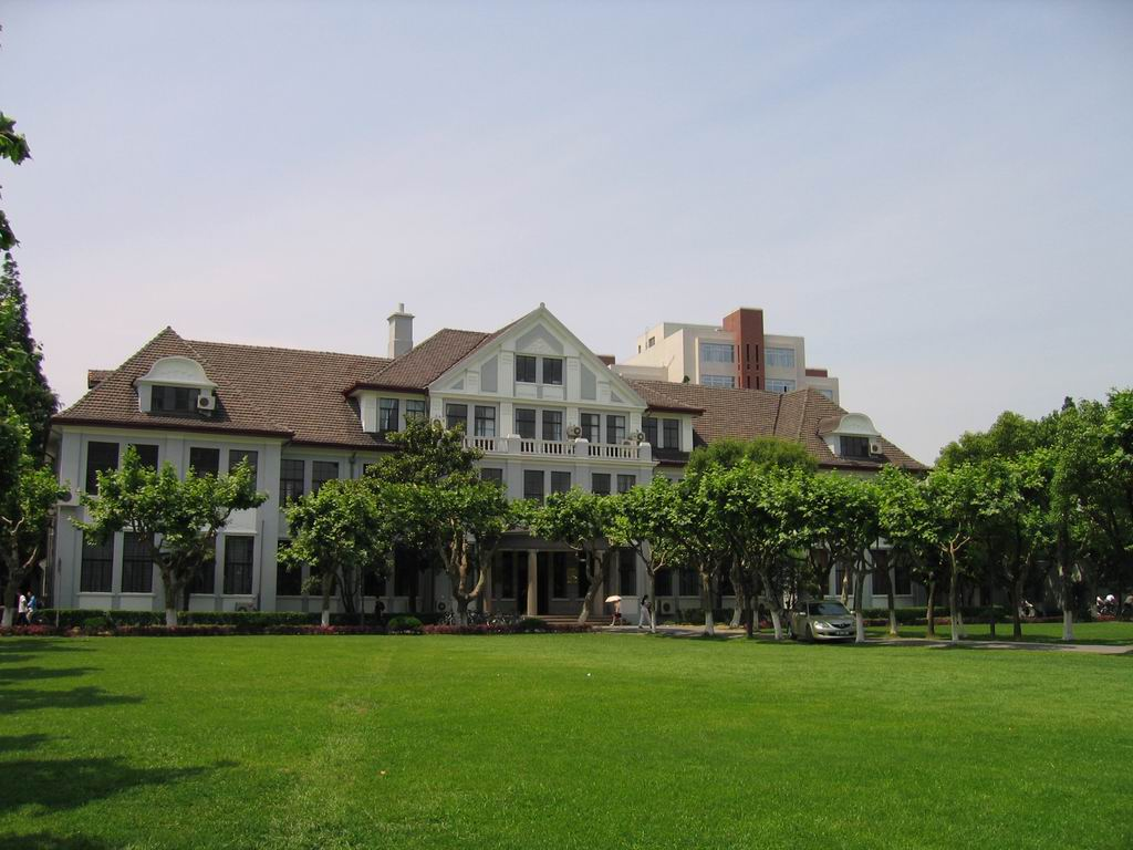 Zibinyuan Building at Handan Campus